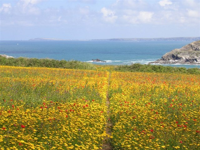 Pentire Point West, looking to Pentire Point East The National Trust farms these meadows in a way that encourages arable 'weeds' such as these poppies and corn marigolds, at their best in early July. A kind of Cornish machair.